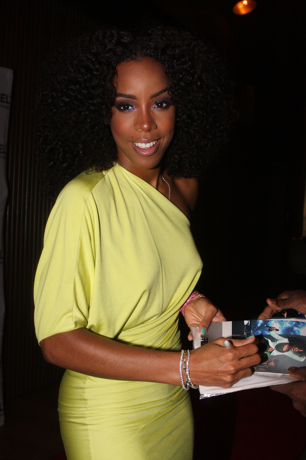 Kelly Rowland Hosts TW Steel Events At Ivy Penthouse; Sydney, Australia